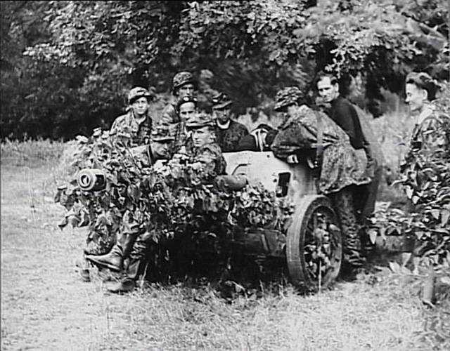 Warsaw Uprising: Prezentation for insurgent press of a German canon in Krasińskich Gardens. Canon fell on August 11, 1944, into hands of soldiers from Platoon I of Tadeusz Wąsowski "Tadzik" from First Company "Bolek" of "Leśnik" Group. It was a 5 cm PaK 38 with 80 rounds.